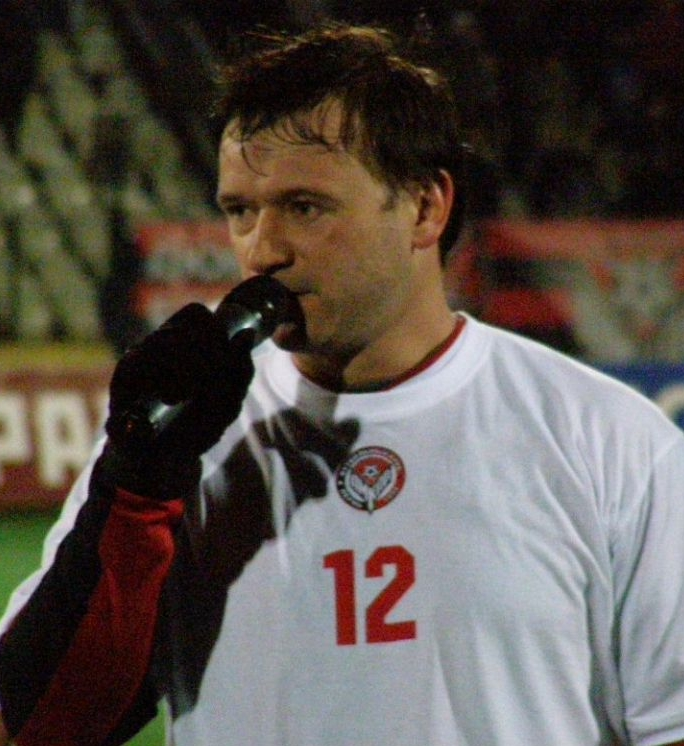 Konstantin Paramonov after his last match for FC Amkar